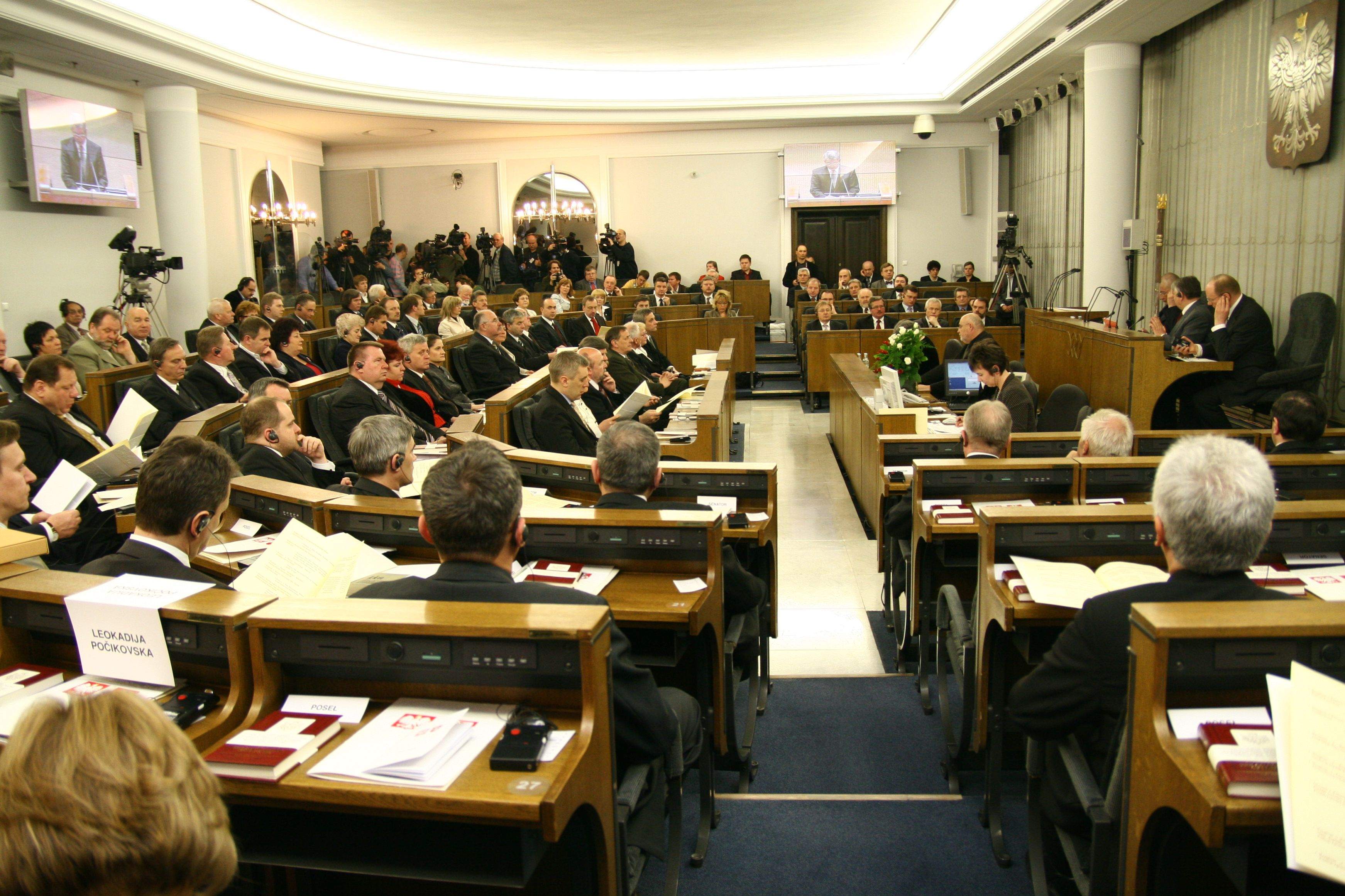 Joint parliamentary assembly of deputies and senators commemorating the Constitution of May 3, 1791, in the Polish Senate